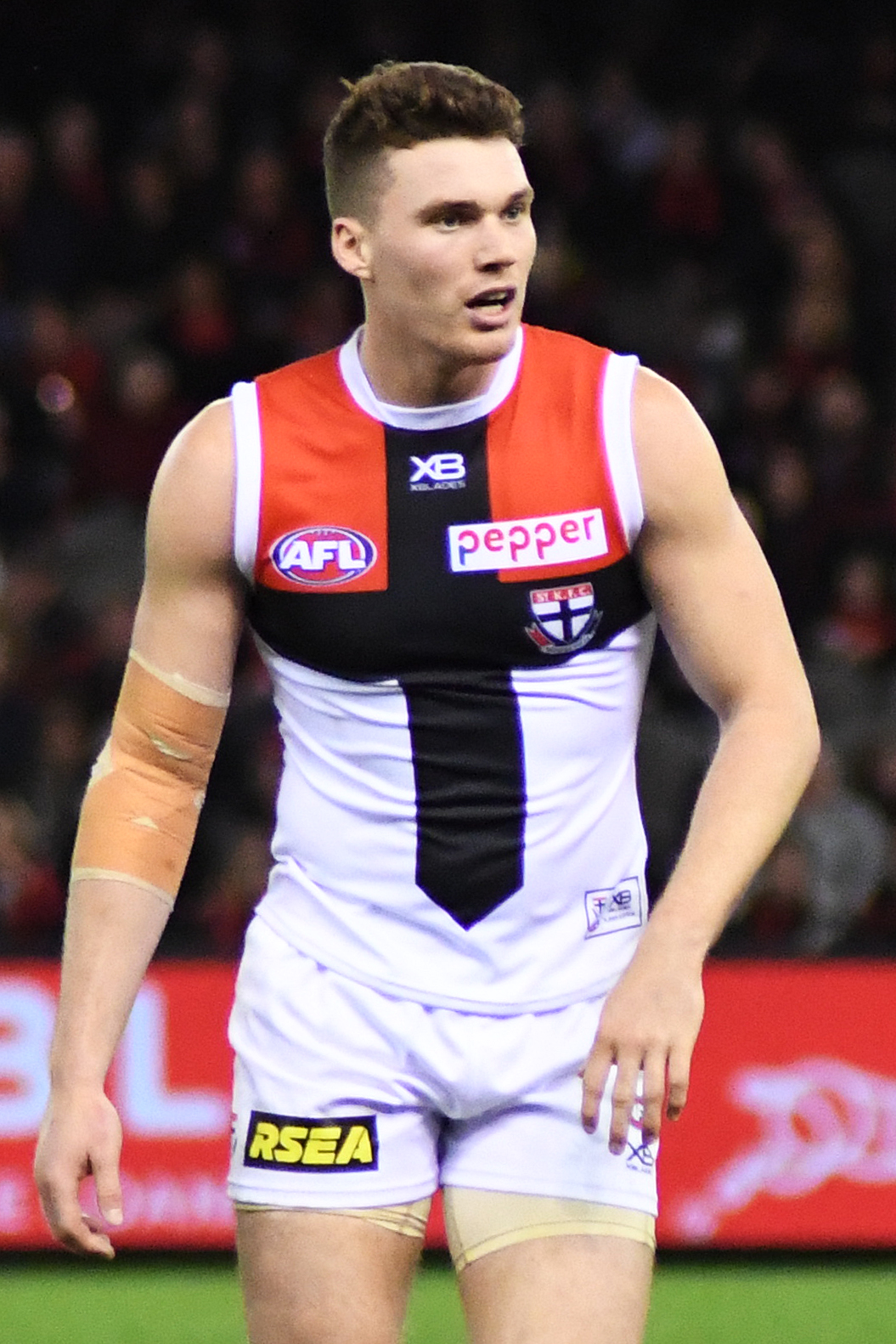 Blake Acres of St Kilda during the 2018 AFL round 21 match between Essendon and St Kilda at Etihad Stadium on Friday, 10 August 2018 in Melbourne, Victoria.